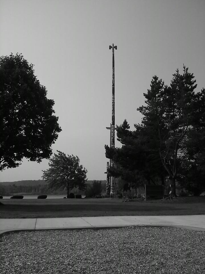 Kalama Totem Poles